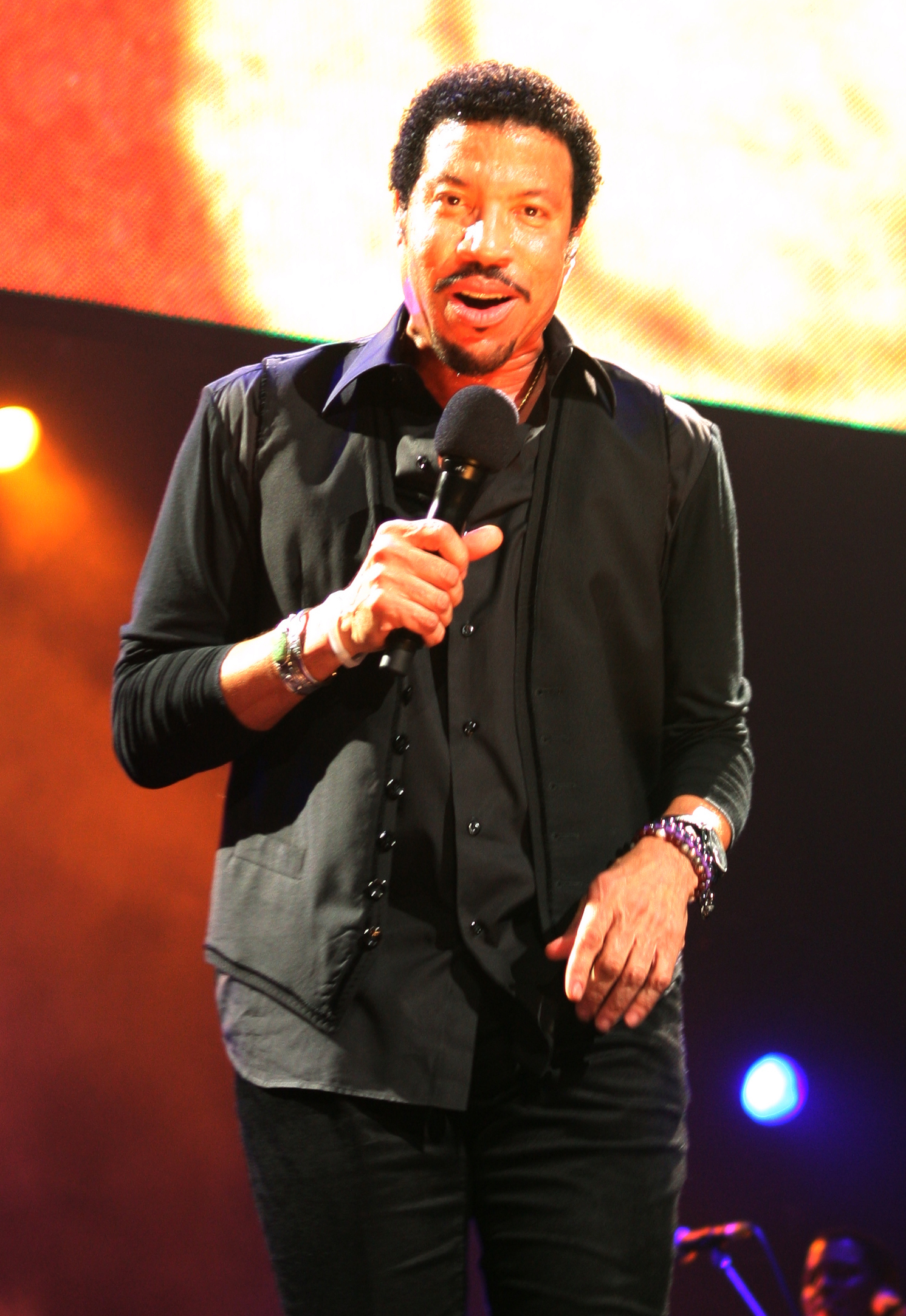 Lionel Ritchie performing at Acer Arena in Sydney, Australia in March 2011.